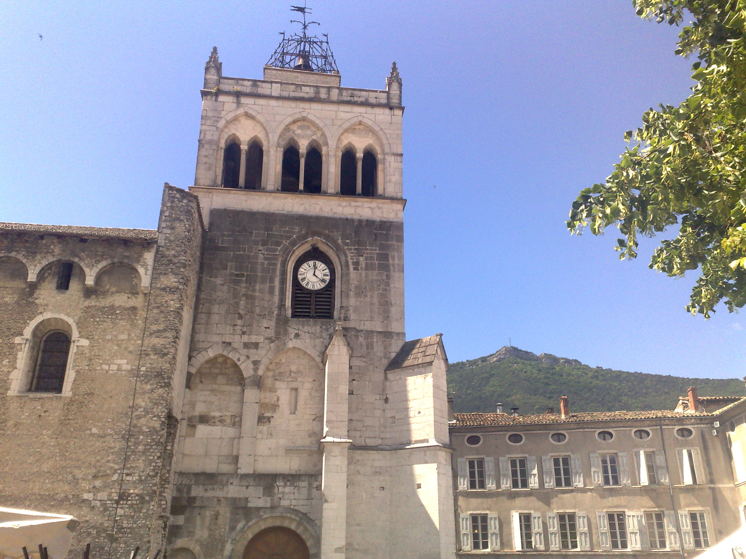 Cathedral Die from the market